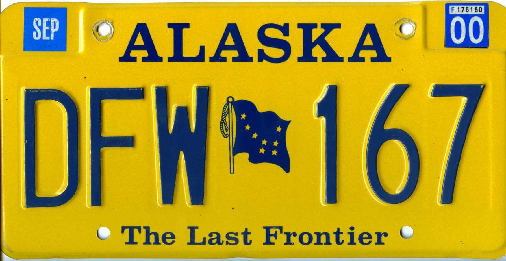 United States of America License plate of the State of Alaska with the new motto “The last frontier”.